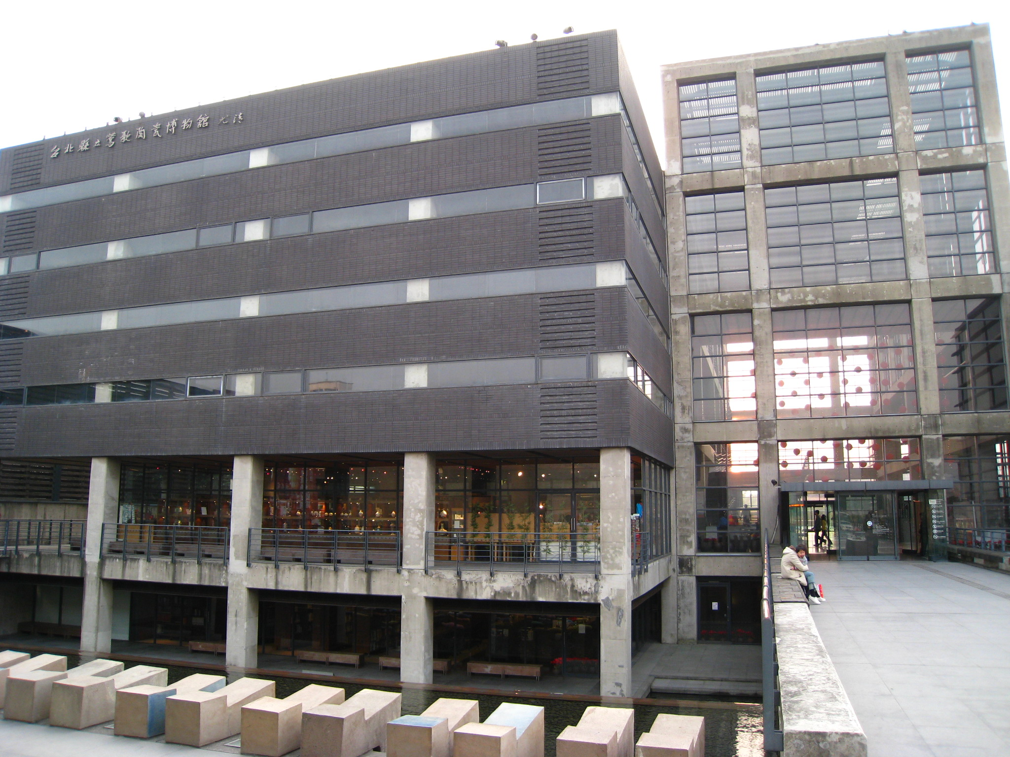 Taipei County Yingko Ceramics Museum